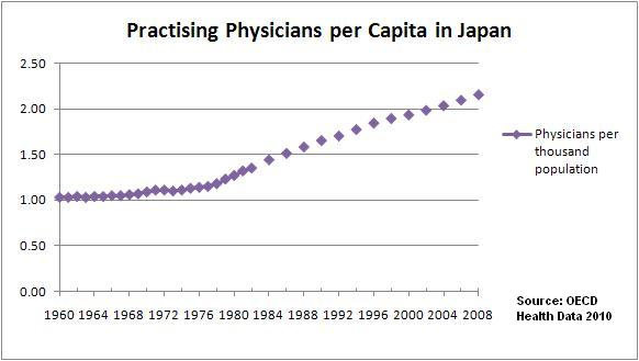 This image depicts the number of practising physicians per capita (in thousands, specifically) in Japan and the changes over the latter part of the 20th century. A 'OECD Health Data 2010' report is used for the information, which is available here.